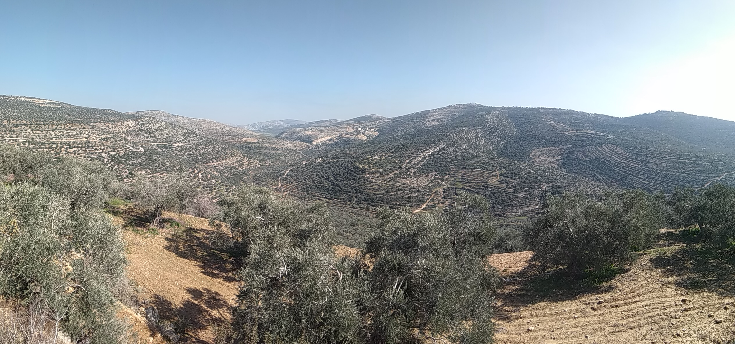 Wadi El Shaer - East Salfit